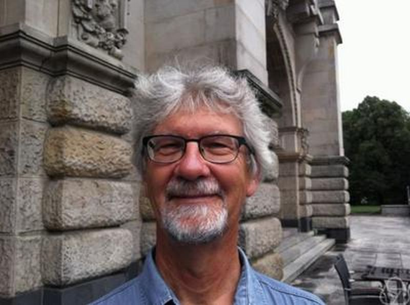 Chris Peters, Hannover 2012